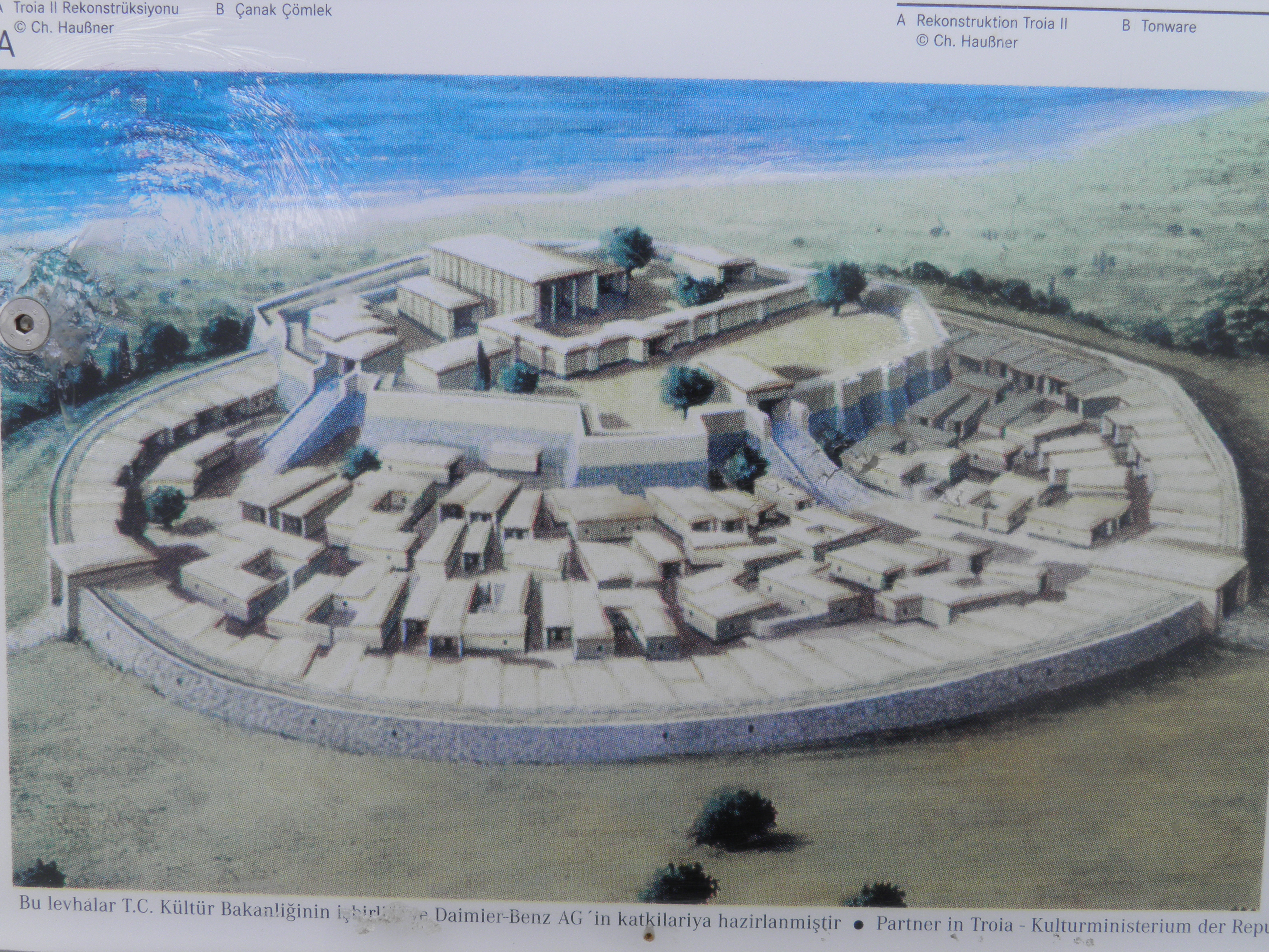 Troy (Ilion), Turkey